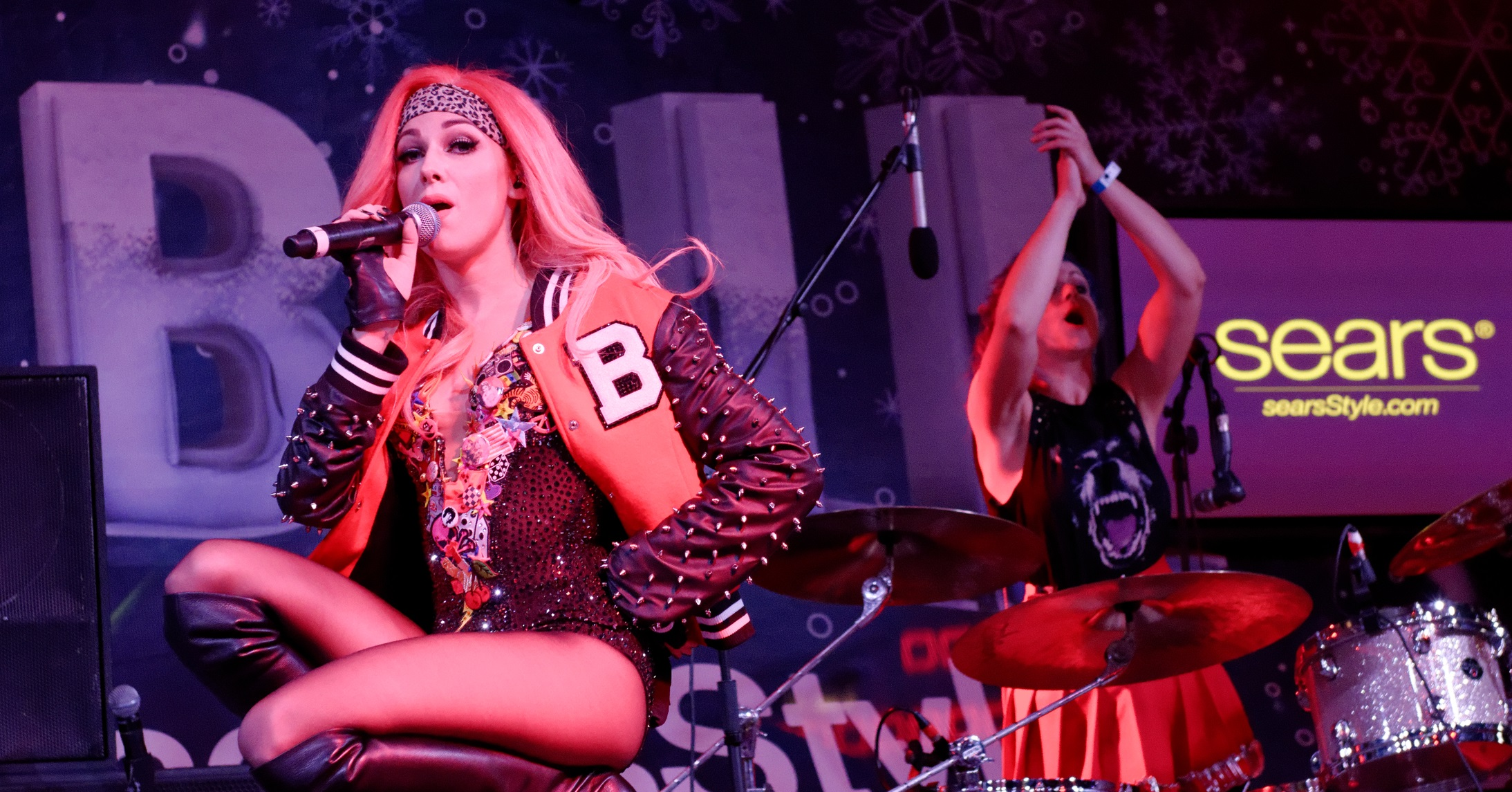 Bonnie McKee performing on the KIIS Jingle Ball Village Stage at Staples Center in Los Angeles CA on December 6th, 2013